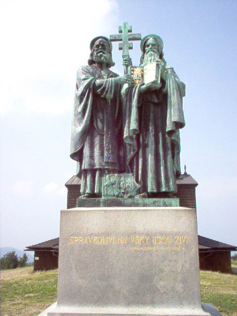 Sculpture of SS Cyril and Methodius by Albín Polášek on Radhošť Mt., Czech Republic.